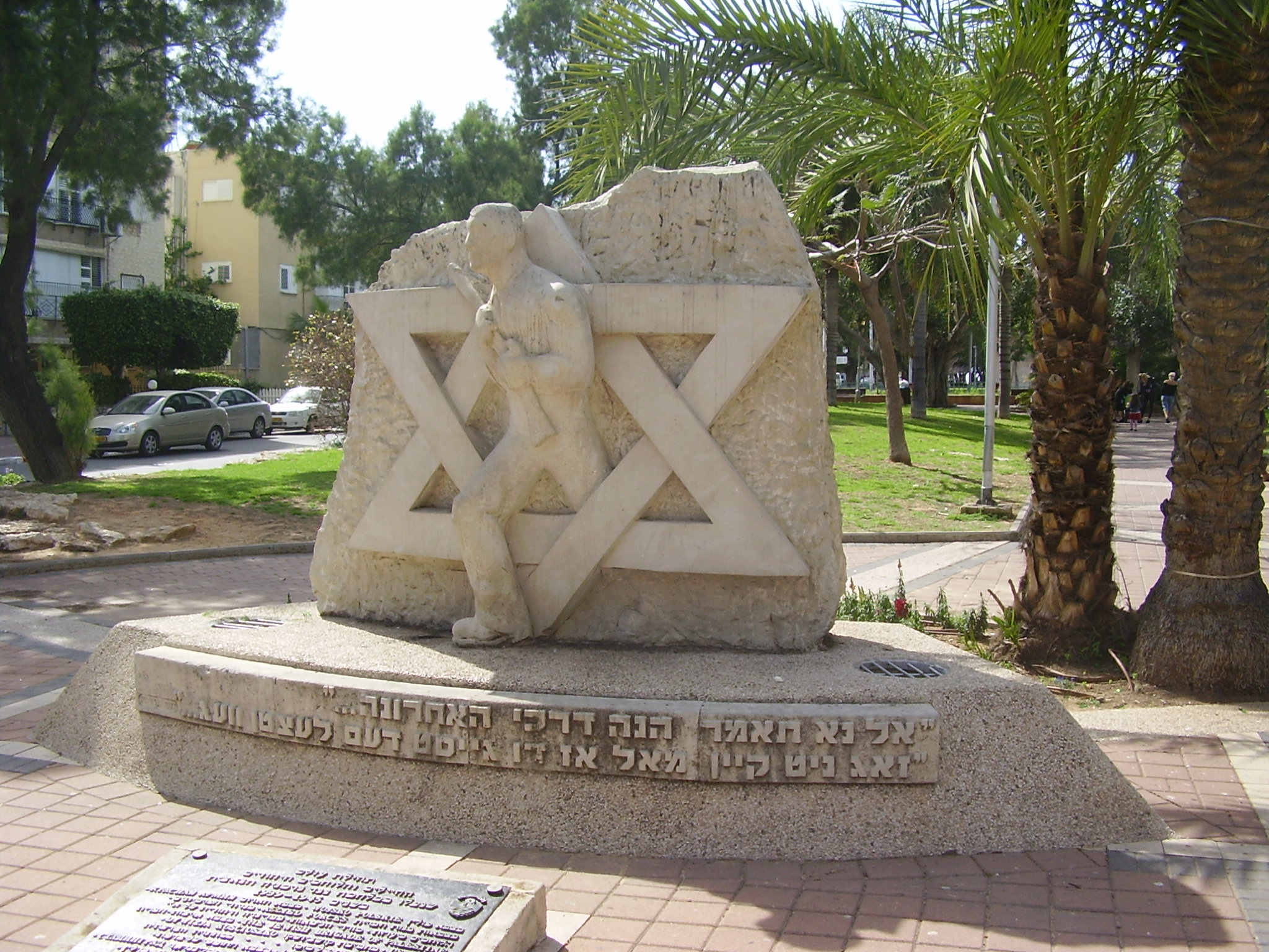 memorial to jewish partisans and fighters in the second world war against the nazisYiddish text transliteration: zog nit keynmol, az du geyst dem letstn veg, from the title of a partisan song Hirsh Glik